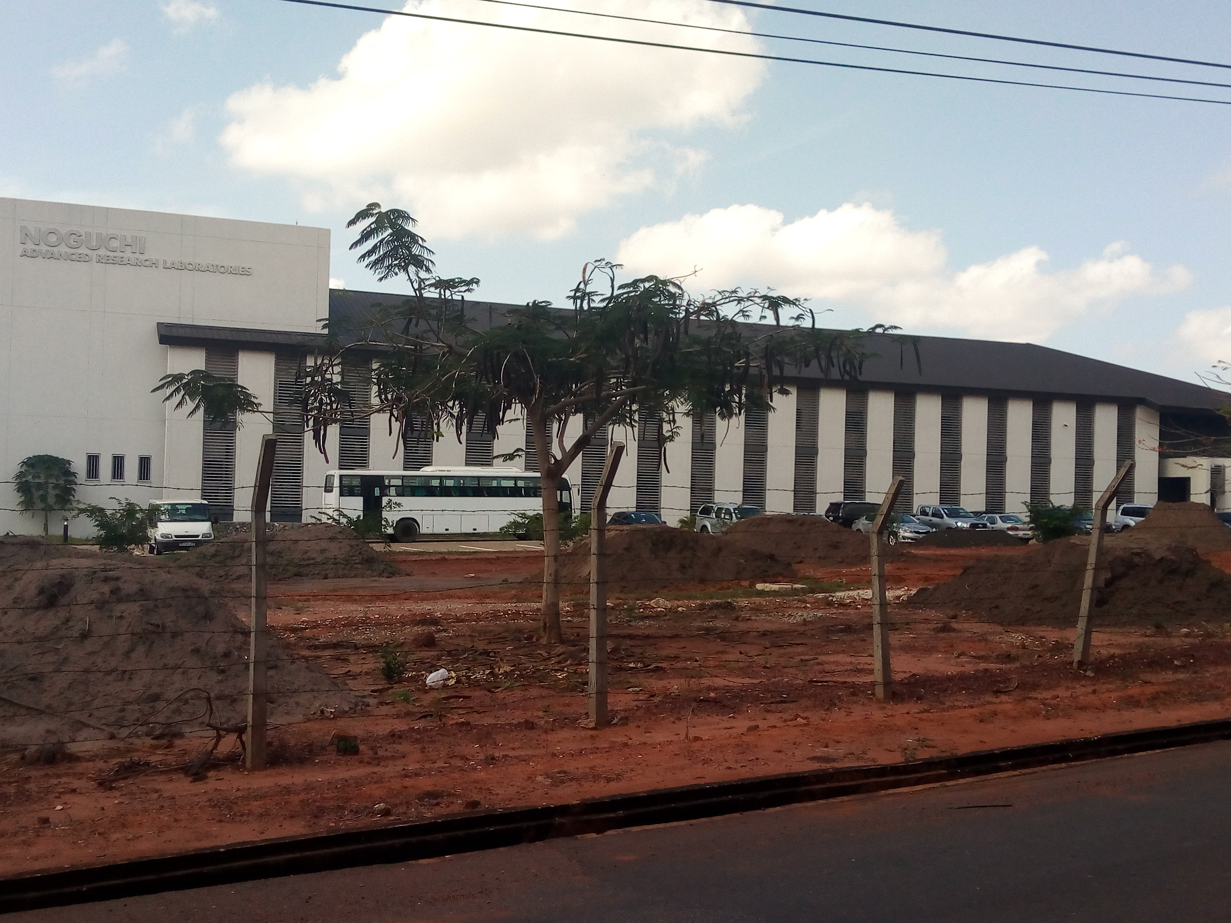 Research Centre